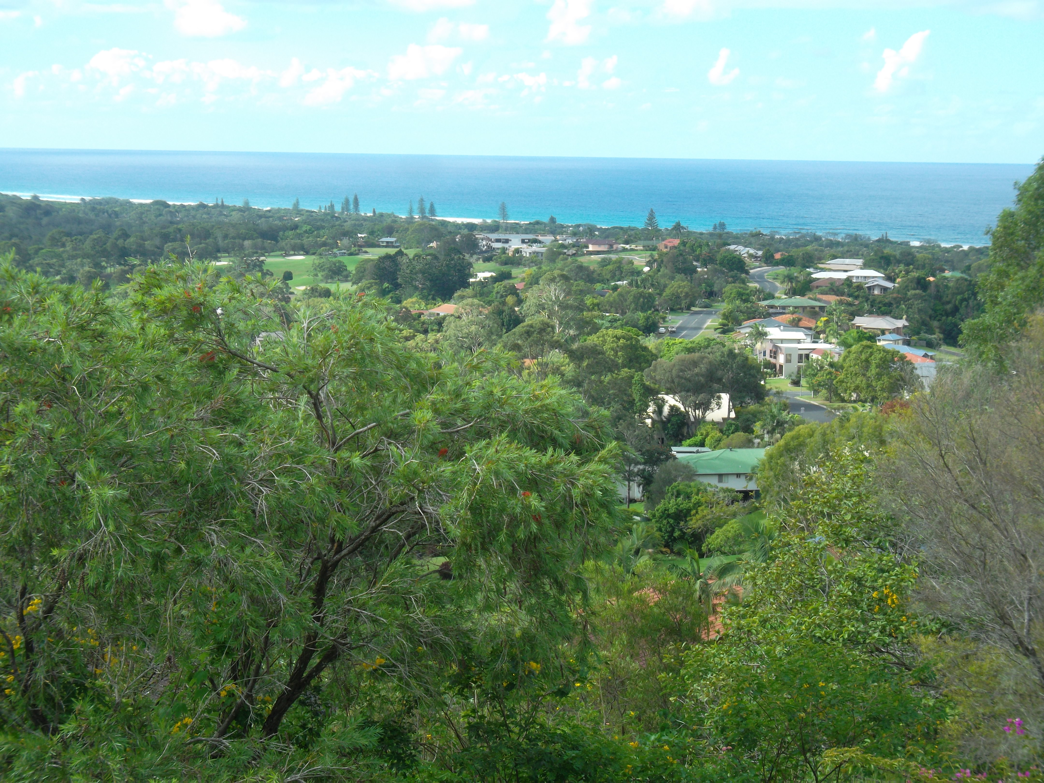 View of Ocean Shores, NSW, from Lookout Park, looking East to the sea.